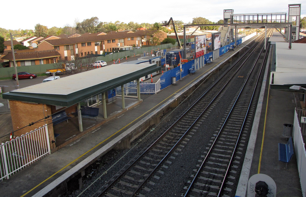 Platform 2 is currently very narrow.